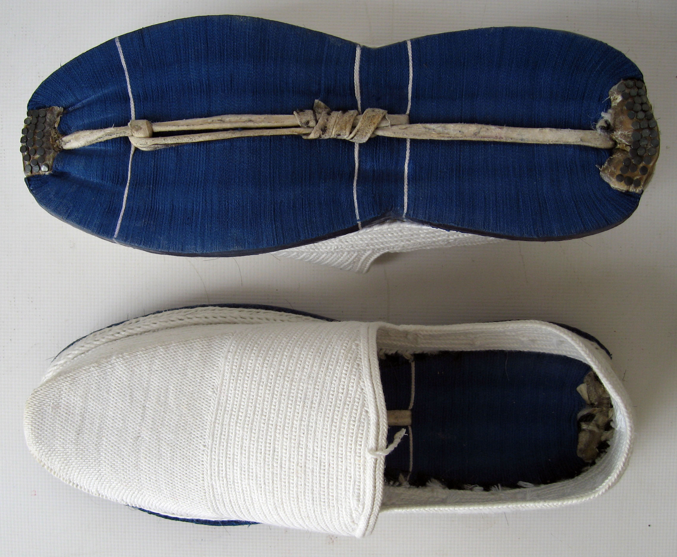 Kllash: Kurdish Giveh